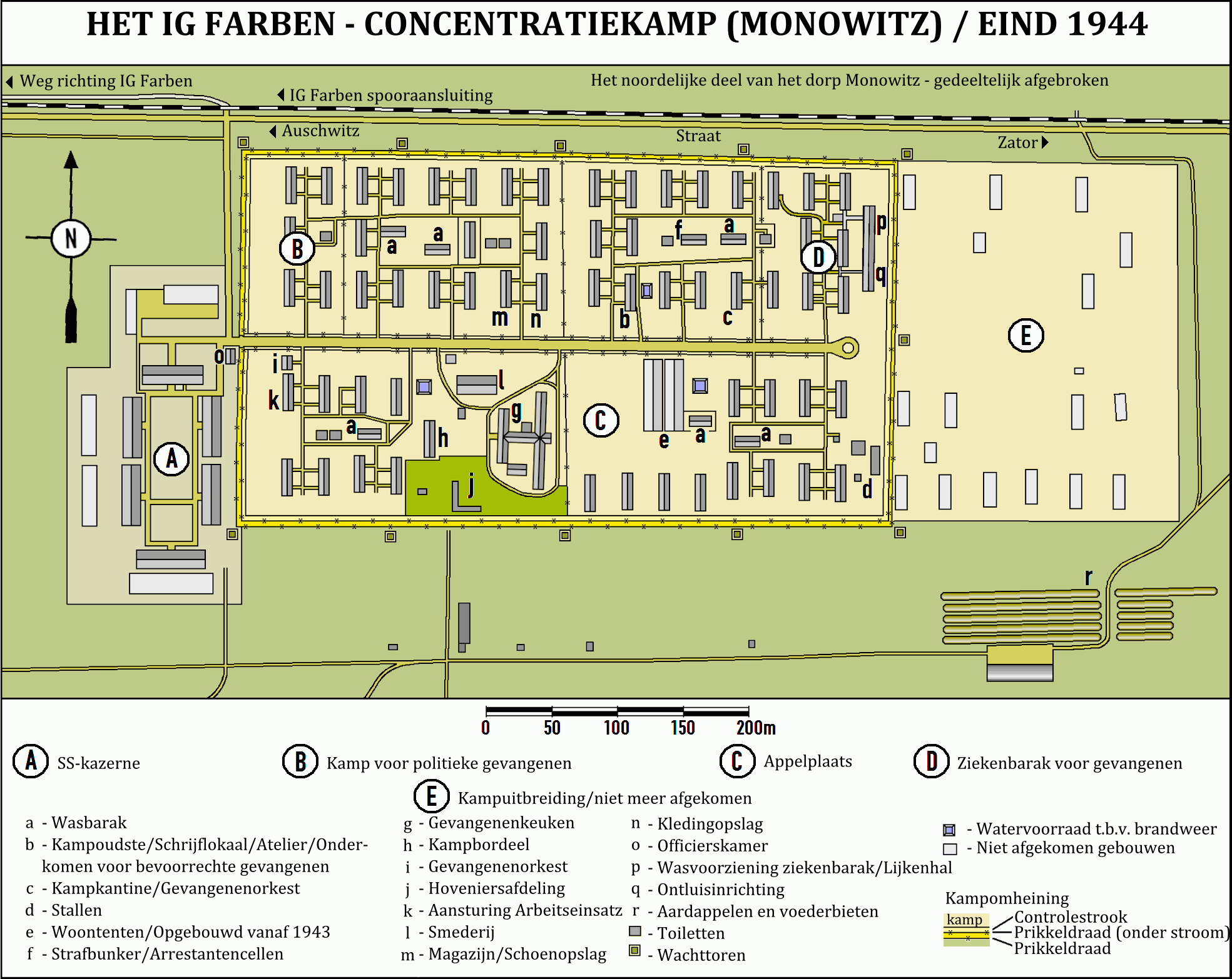 map of concentration camp Auschwitz III (Monowitz) as it was at the end of 1944